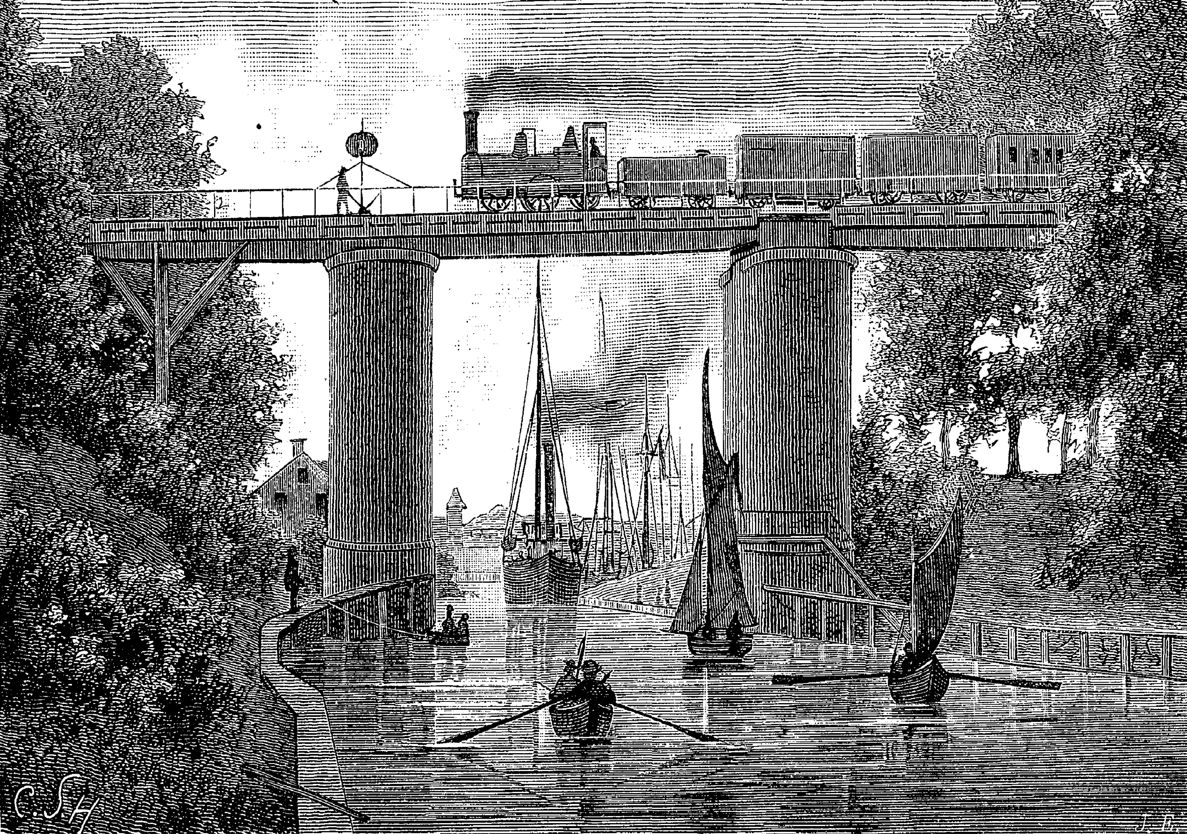 pic shows the first railway bridge across the canal in the city of Södertälje in Sweden.